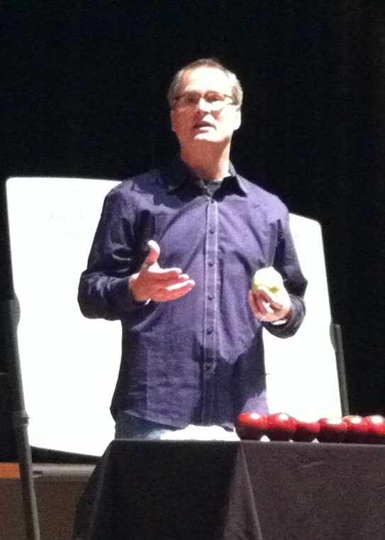 Rev. Adam Hamilton speaks at the 2011 Church of the Resurrection Leadership Institute.